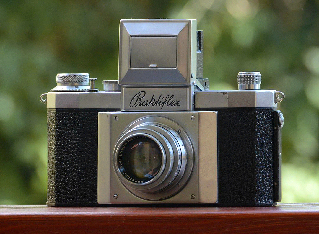 Praktiflex, 1st generation (1939)